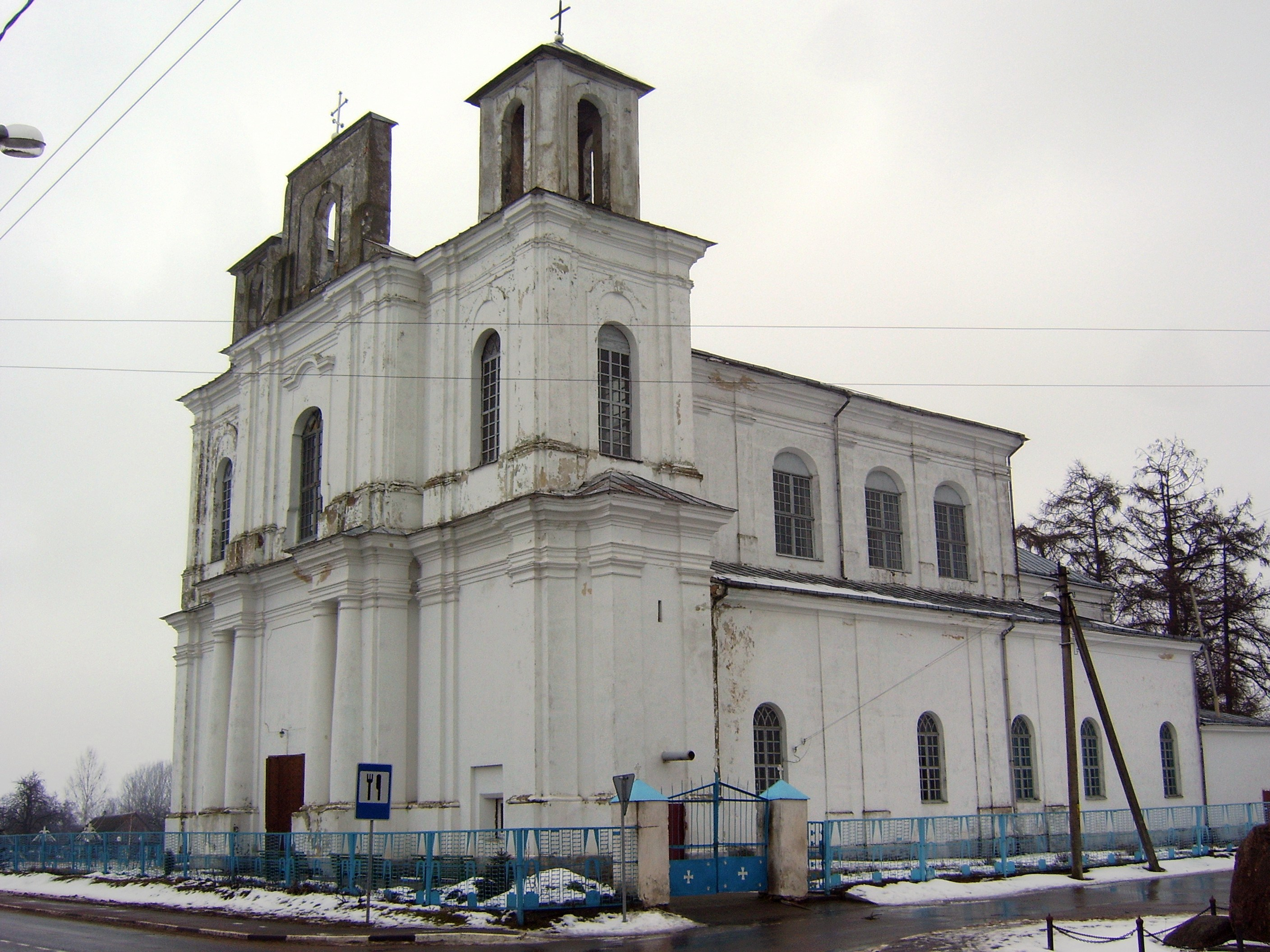 Belarus. Stalovichy. Orthodox church of the Assumption. Old church (1740) of Sovereign Military Order of Malta.